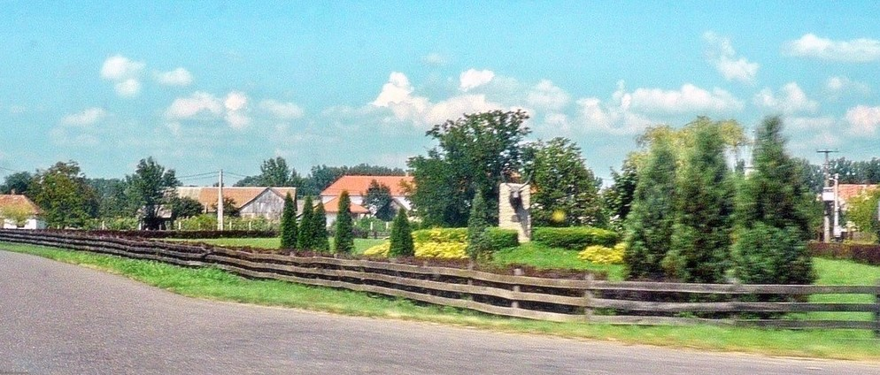 Kisar, 4921 Hungary